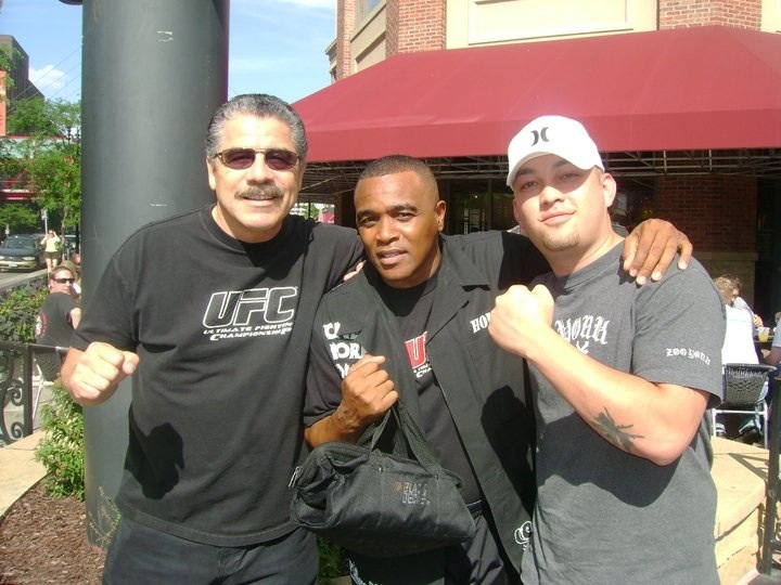 UFC Cutmen with Chris Kelly